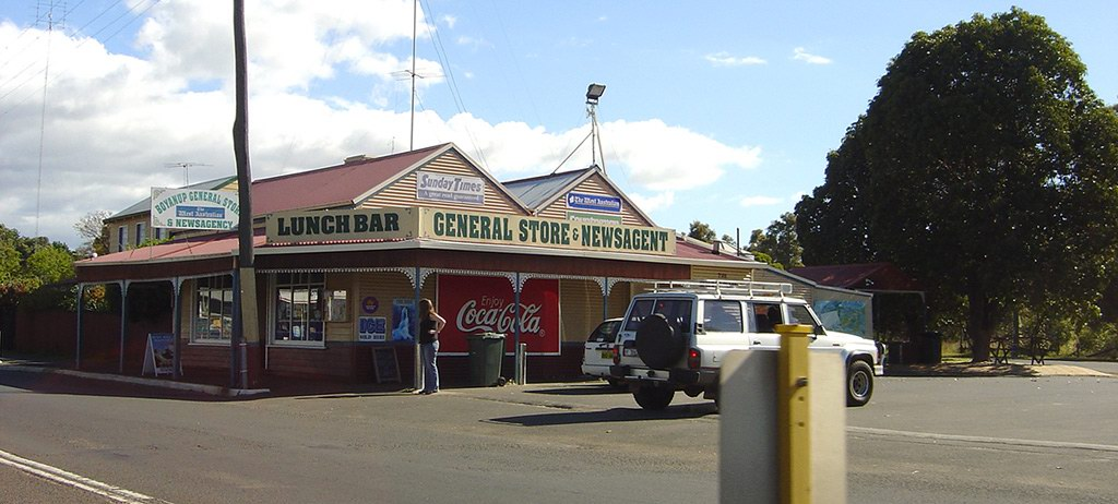 Taken by JAW 11th November 2005 Boyanup, Western Australia Boyanup General Store